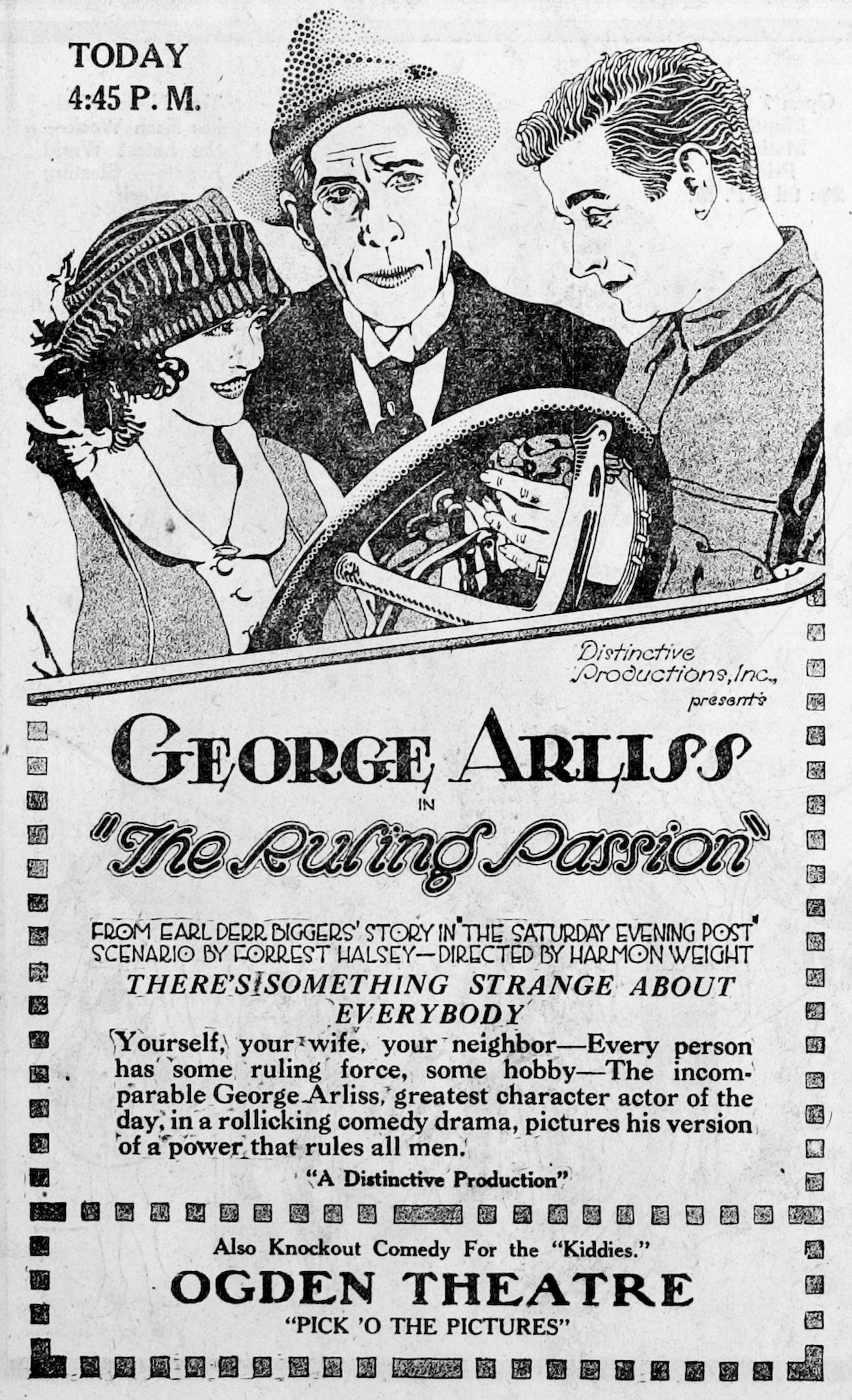 The Ruling Passion is a 1922 American comedy silent film directed by F. Harmon Weight and written by Forrest Halsey. This is a contemporary newspaper advert for the film.